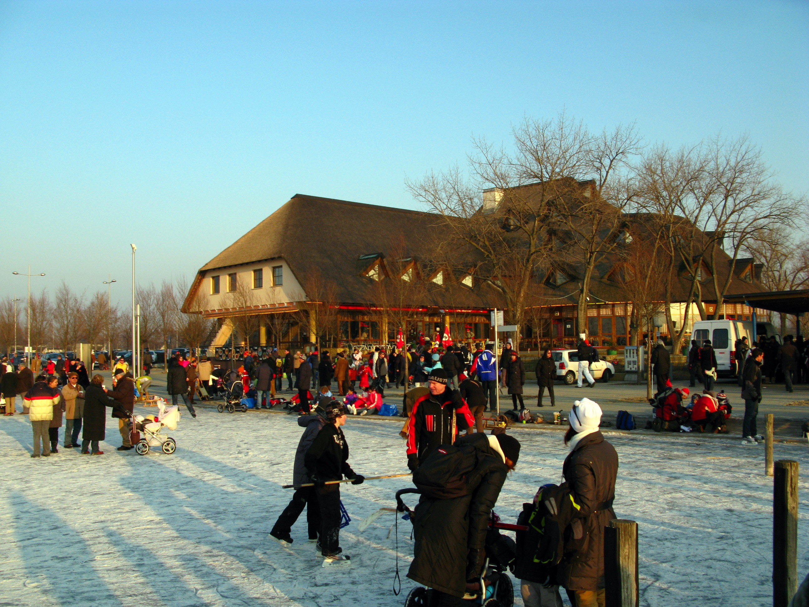 Building with a big thatched roof Neusiedl near Lake Neusiedl / Burgenland / Austria / EU.